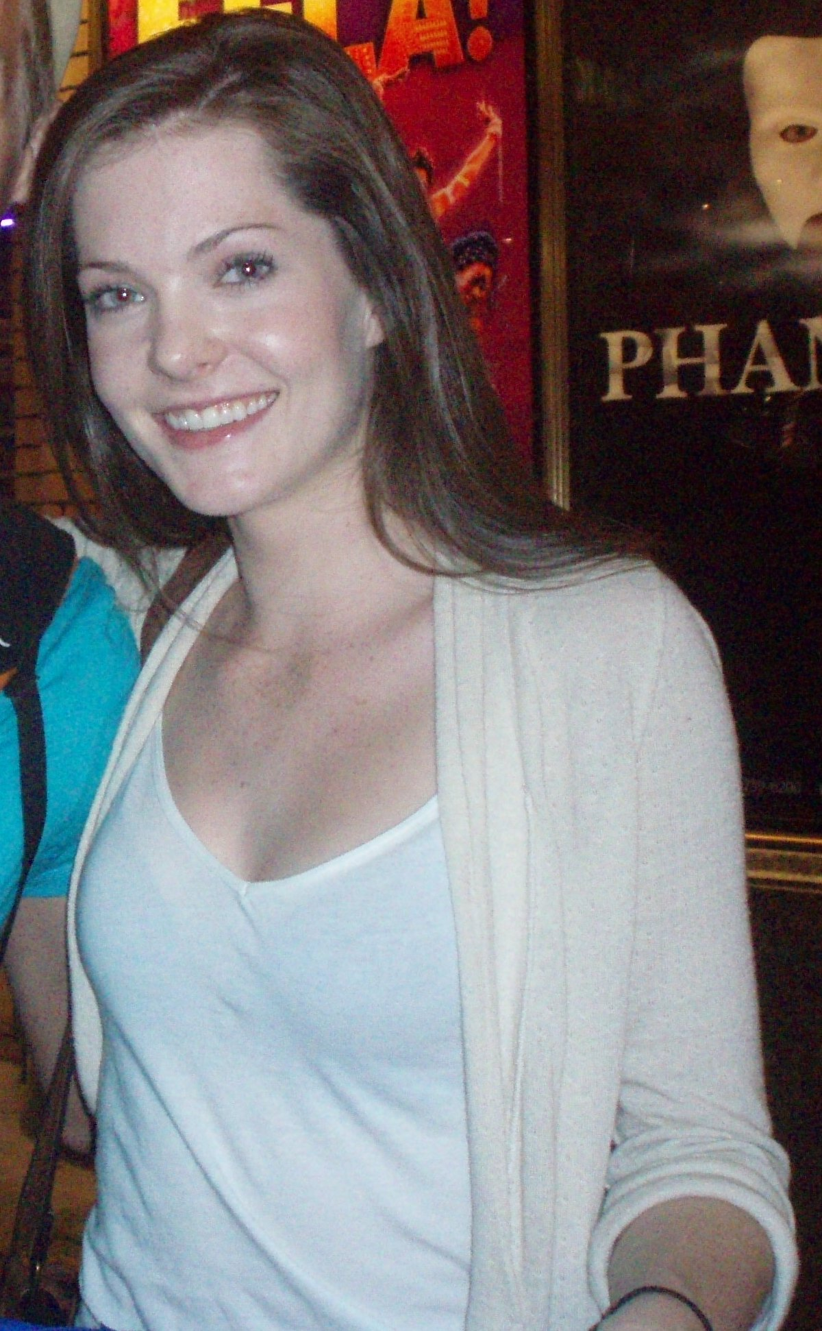 Meghann Fahy